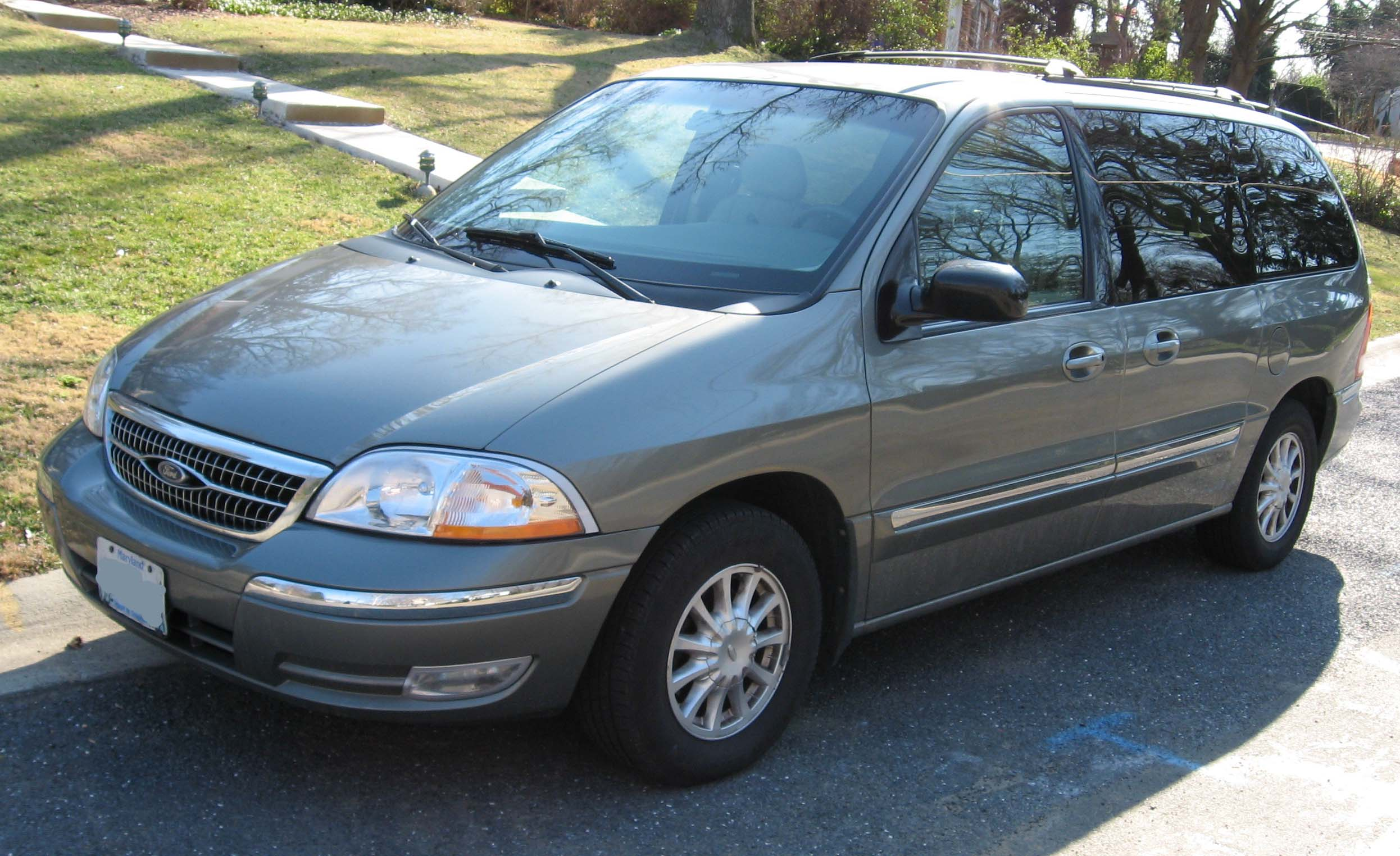 2001-2003 Ford Windstar photographed in USA.